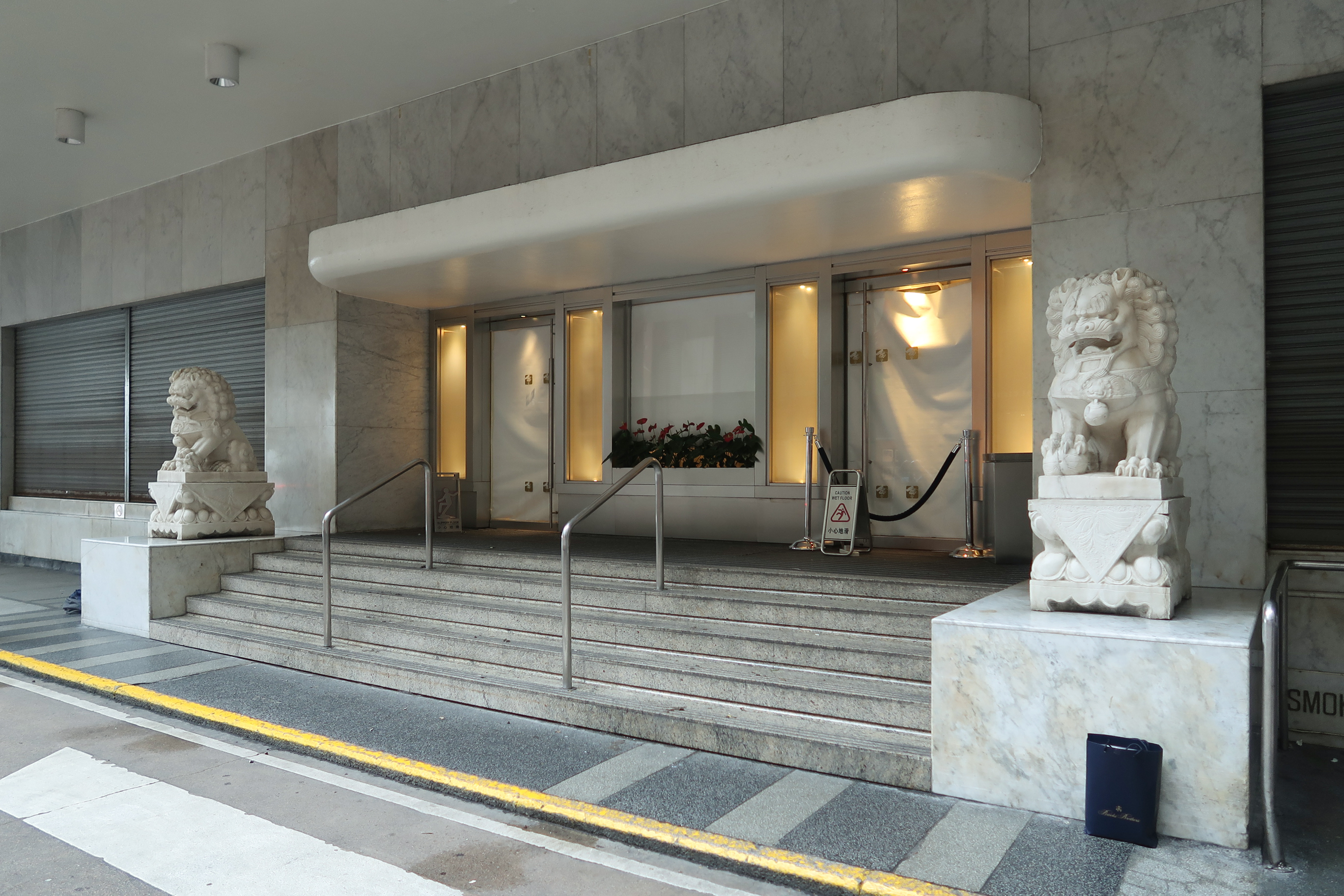 The Excelsior Hong Kong Entrance Lion sculpture